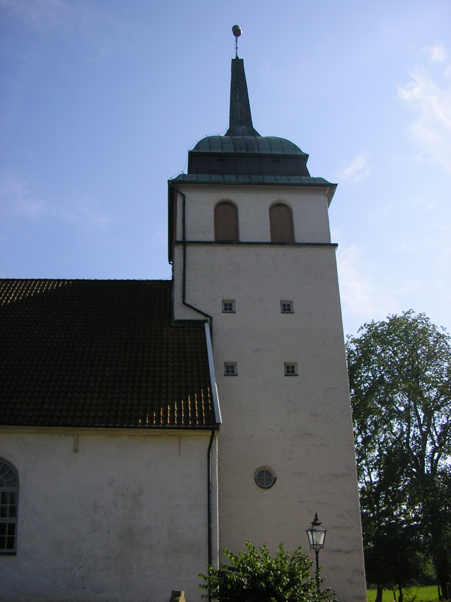 Bro kyrka, Bohuslän, the church in Brodalen, Lysekils kommun. Seen from the north.